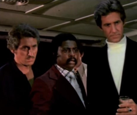 D'Urville Martin (center) in Sheba, Baby - trailer (cropped screenshot)